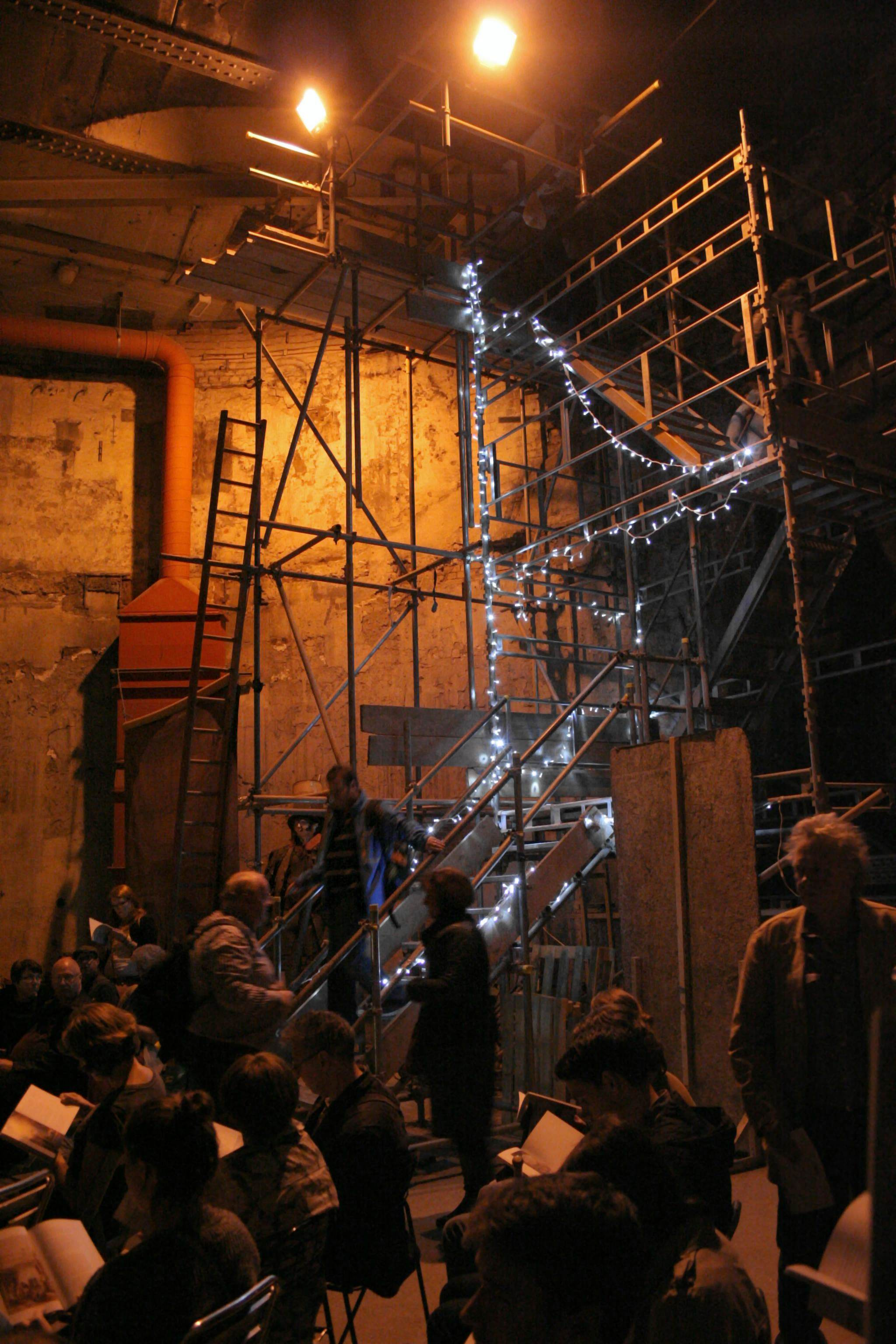 London Open House visitors and the access scaffolding in the northwest shaft in September 2013.